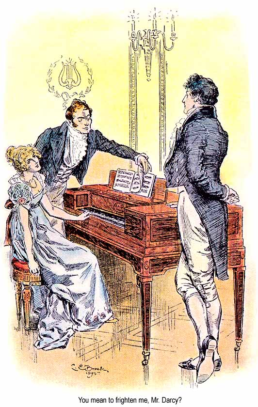 C. E. Brock illustration for the 1895 edition of Jane Austen's novel Pride and Prejudice (Chapter 31)